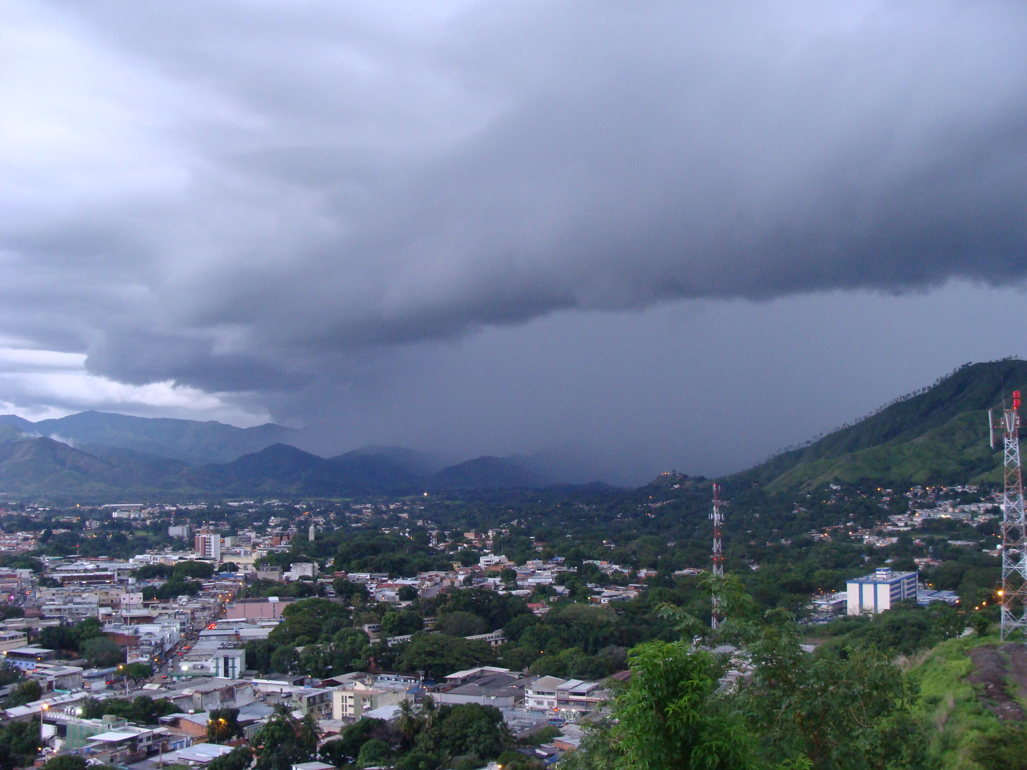 Orographic rain